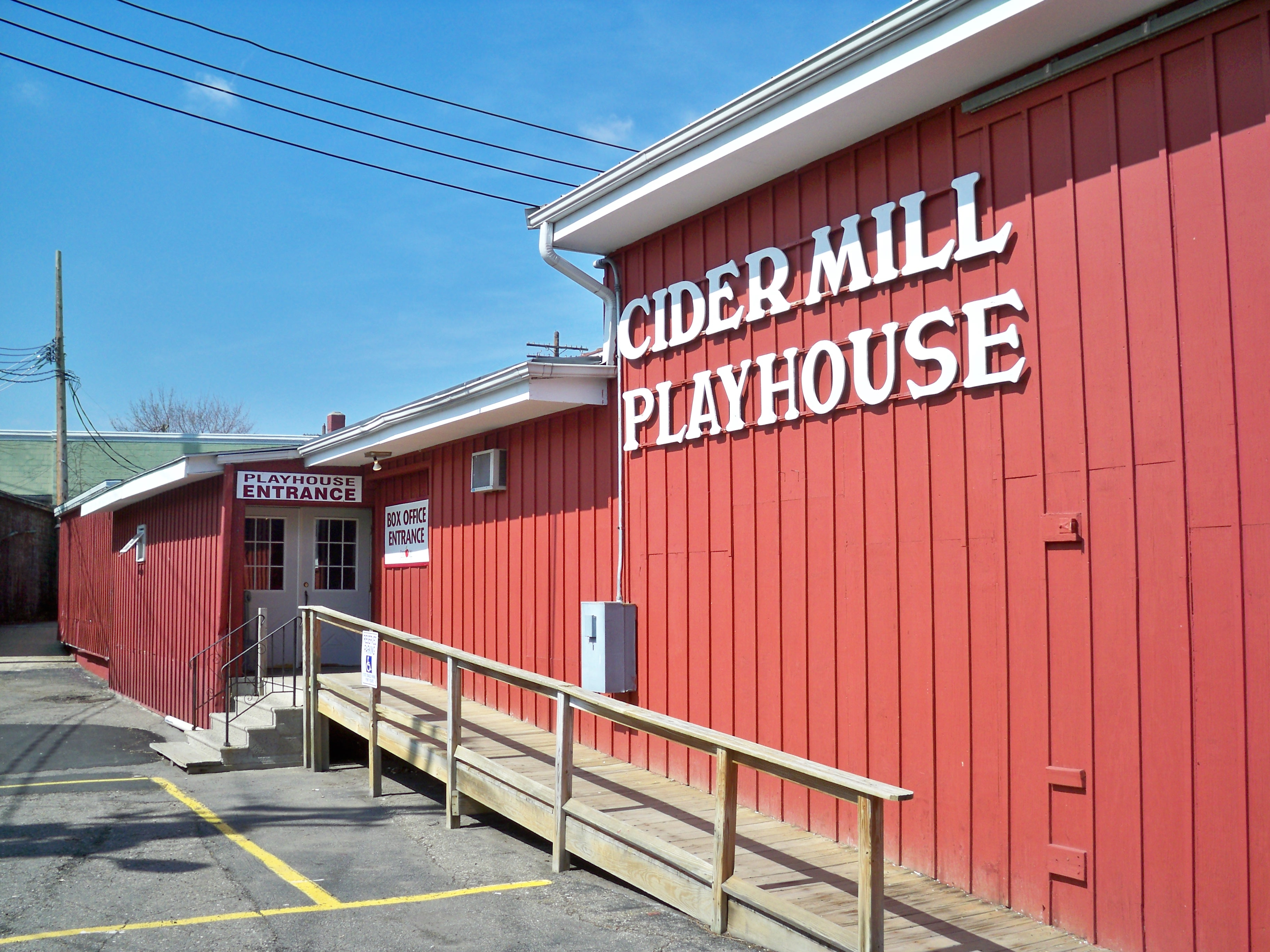 Cider Mill Playhouse exterior